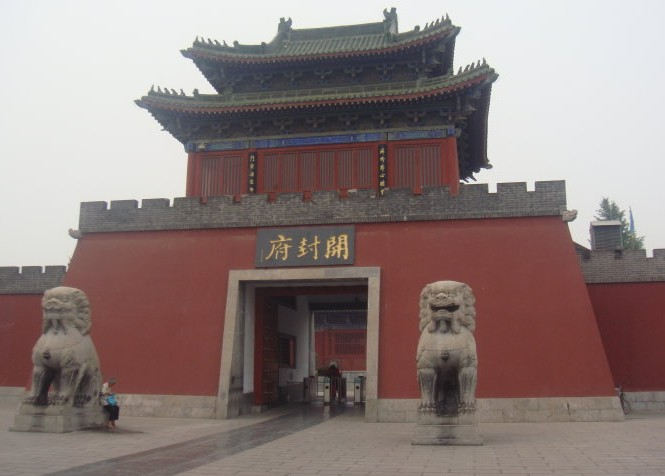 kaifeng